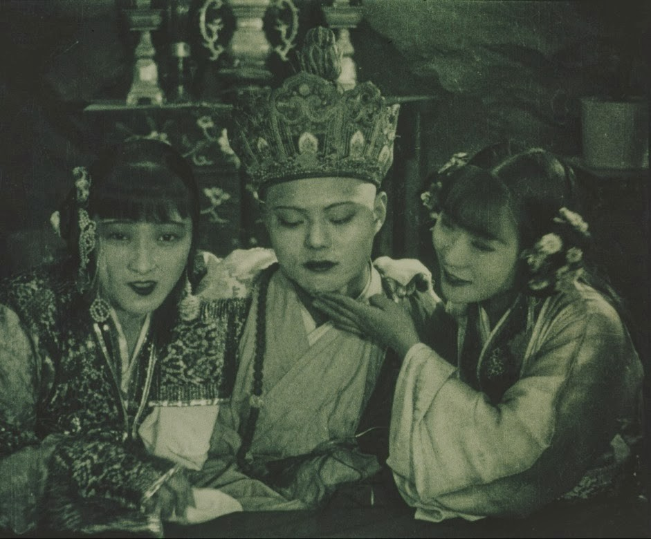 Image from the 1927 Chinese movie The Cave of the Silken Web (Pan Si Dong)